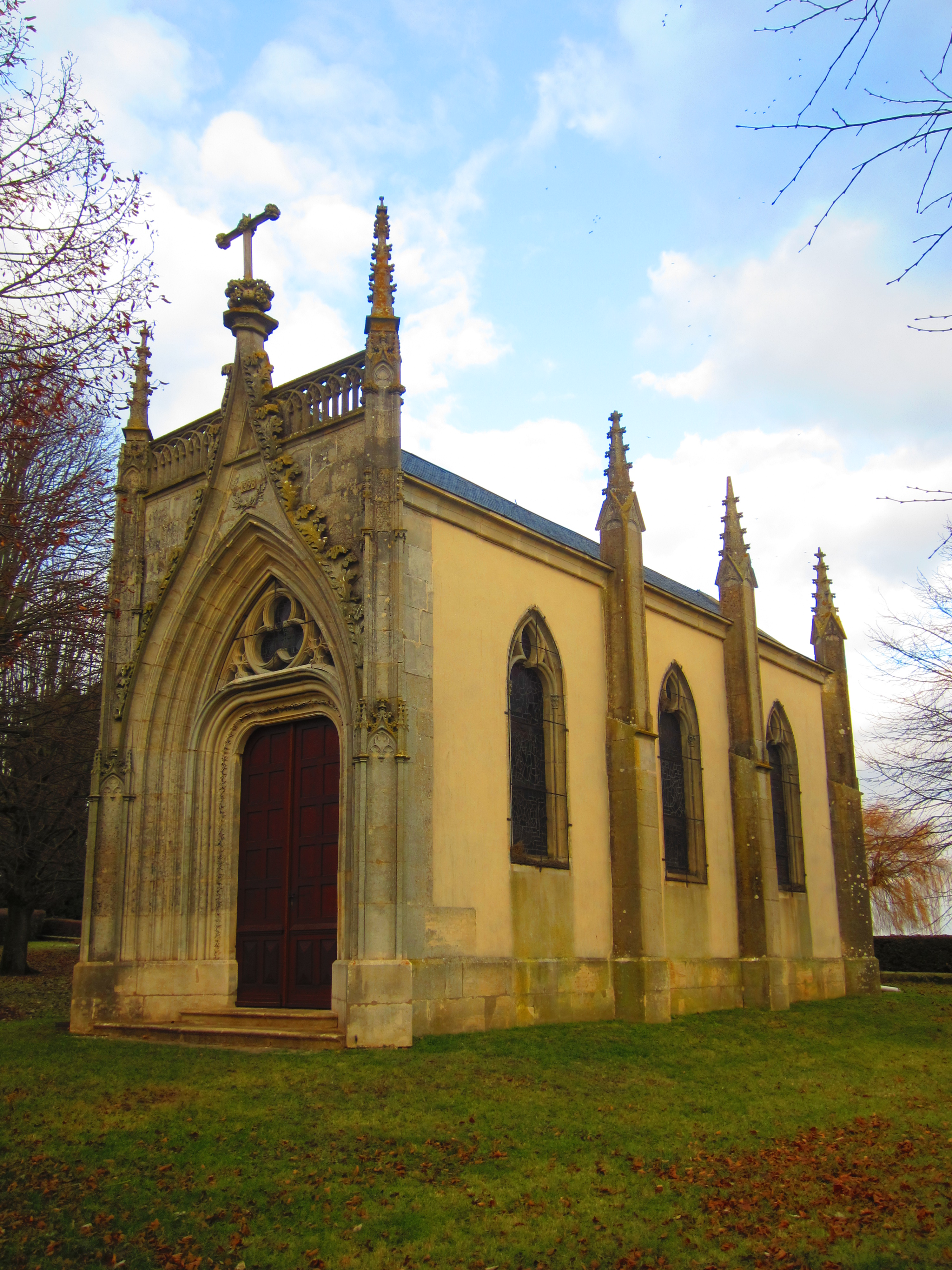 Riche chapel